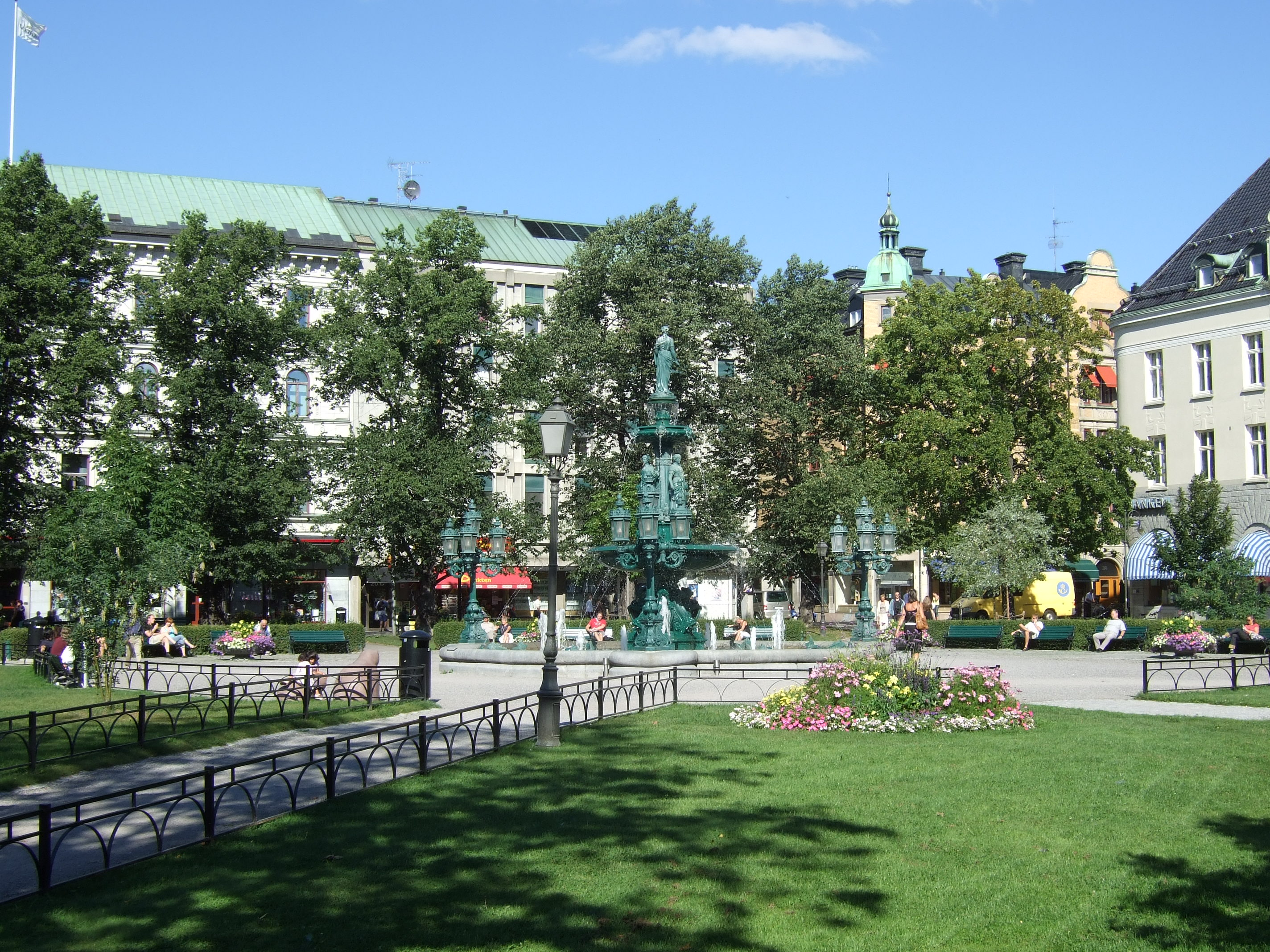 The Vängåvan park in Sundsvall, Sweden, viewed from southwest